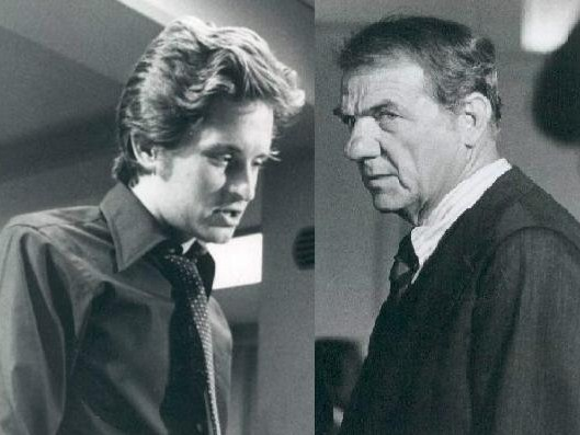 Publicity photo from the television program The Streets of San Francisco. In the photo are Michael Douglas and Karl Malden.